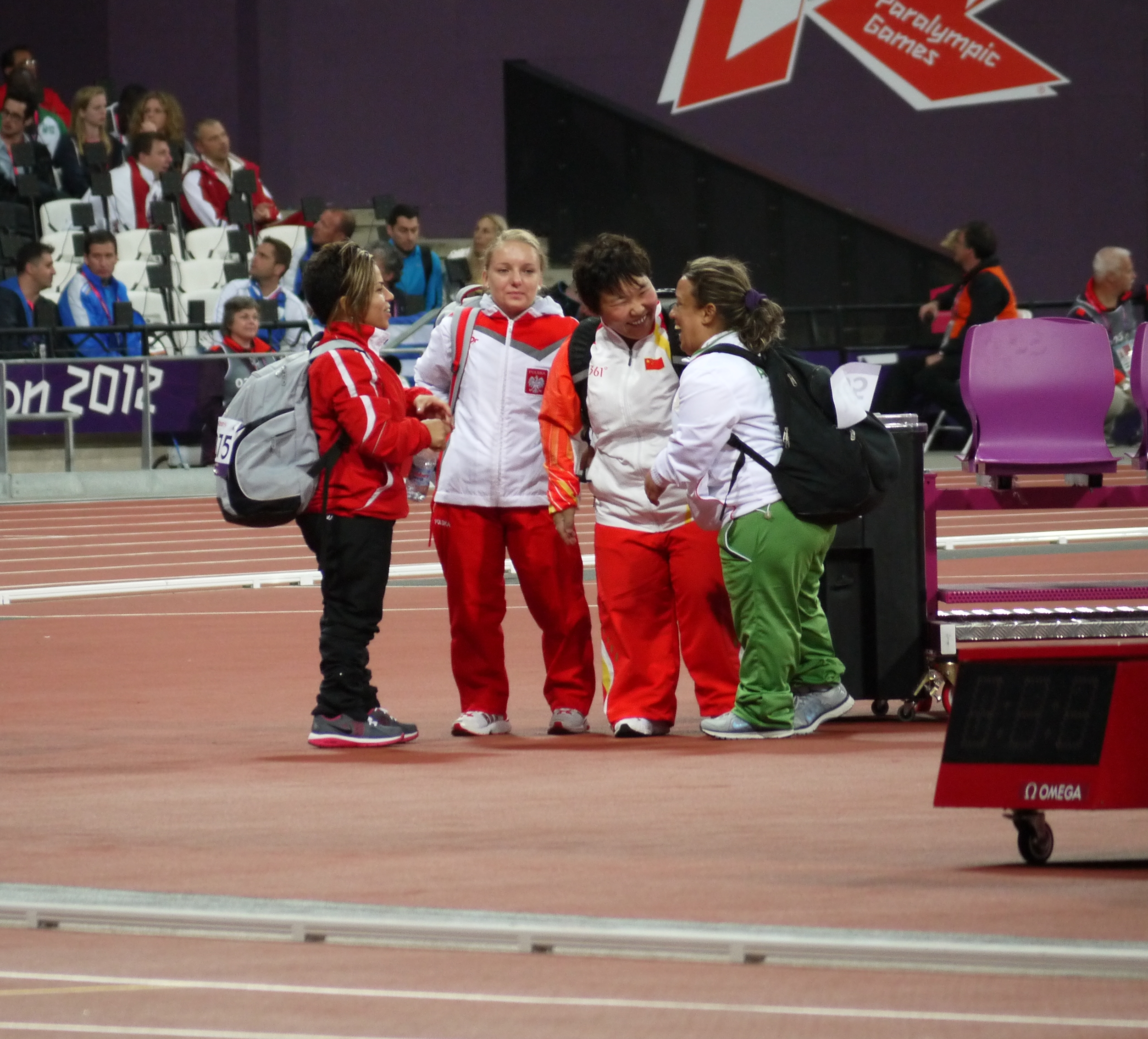 The camaraderie between all the athletes at the Paralympics was very striking. Here the F40 Ladies (inc. meggenjimisu) discuss throwers share a joke as they wait to head back to the changing rooms